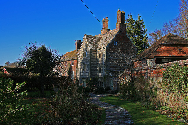 The Chantry - Iwerne Minster This is an unaltered Grade II* Listed C17 house.